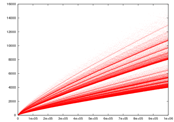 A graph showing the number of ways an even number can be written as the sum of two primes (4 ≤ n ≤ 1000000)